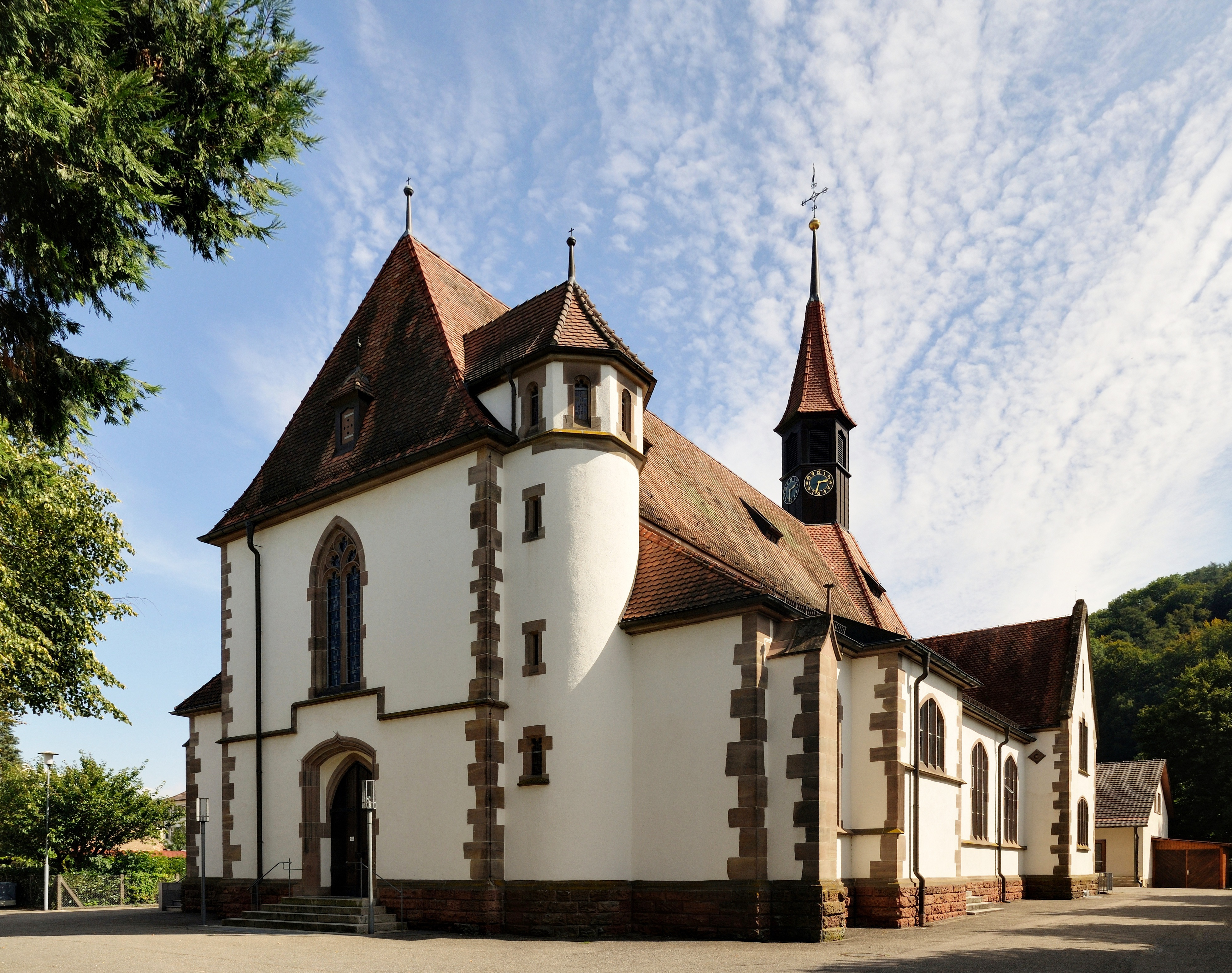 The St Joseph Church in Lörrach, Bade-Wurttemberg, Germany.